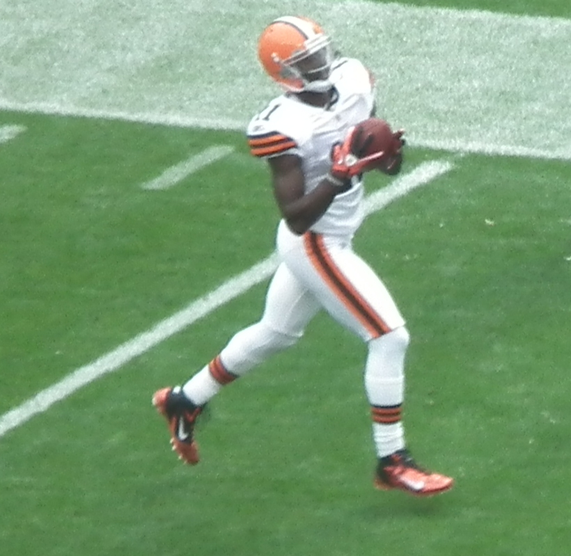 Mohamed Massaquoi, wide receiver for the Cleveland Browns